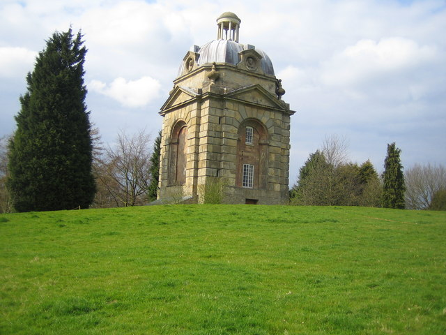 Stowe: One of the Boycott Pavilions Built around 1730, this is the Pavilion on the west side of the Oxford Avenue approach road to Stowe. The other one is on the east side, and they were named after the nearby hamlet of Boycott.